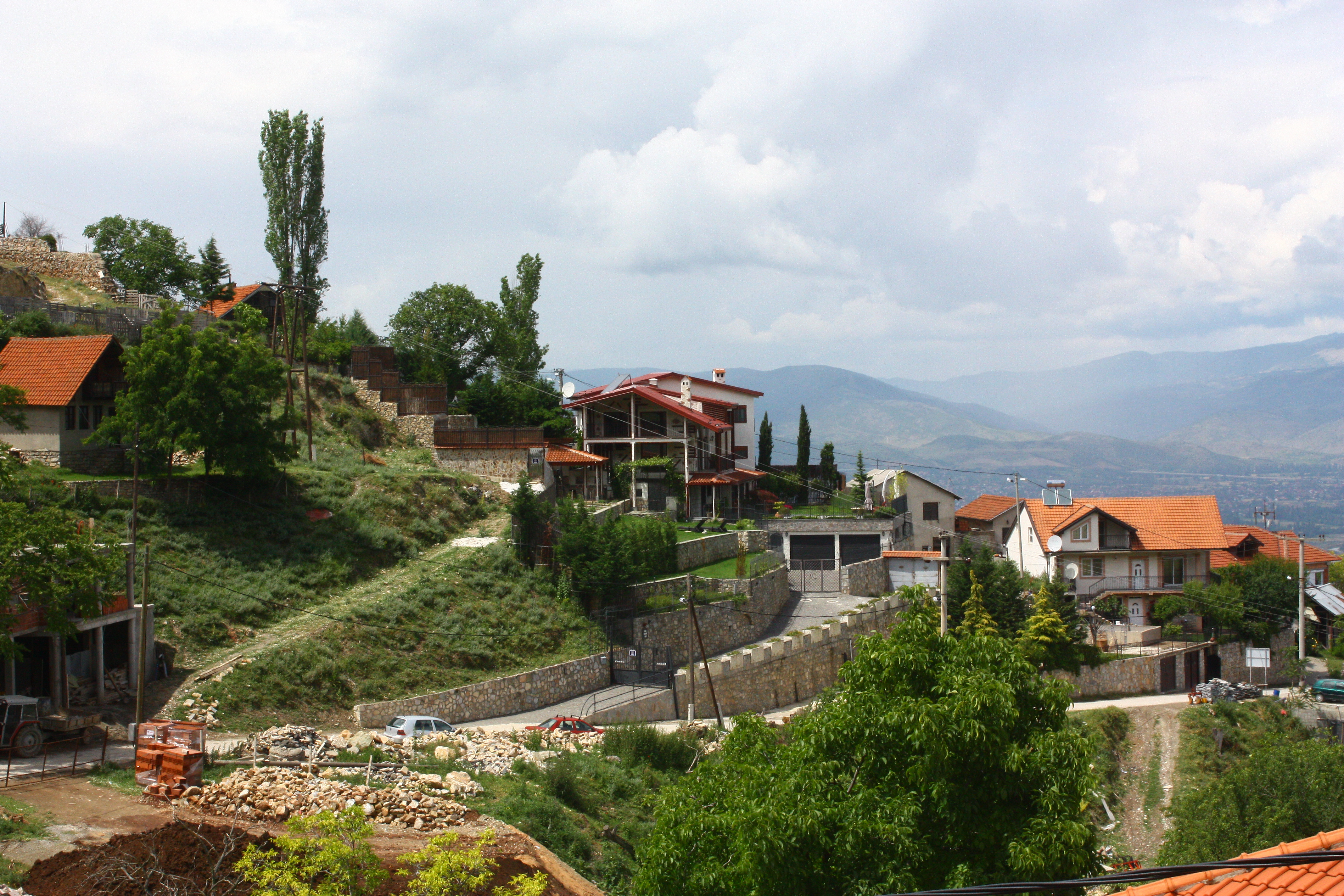 Gorno Nerezi near Skopje, Macedonia